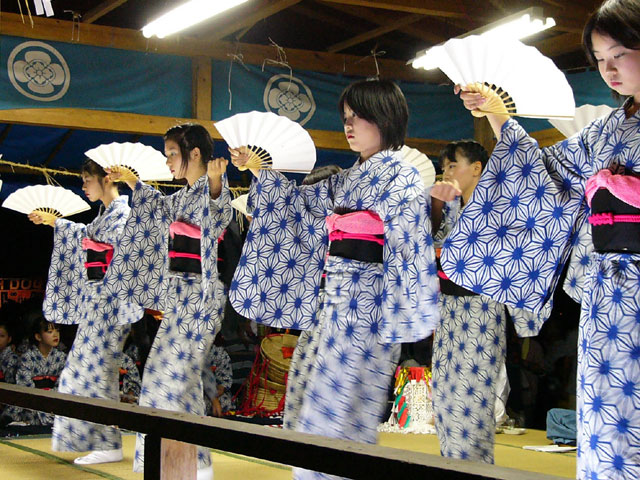 hi-yai